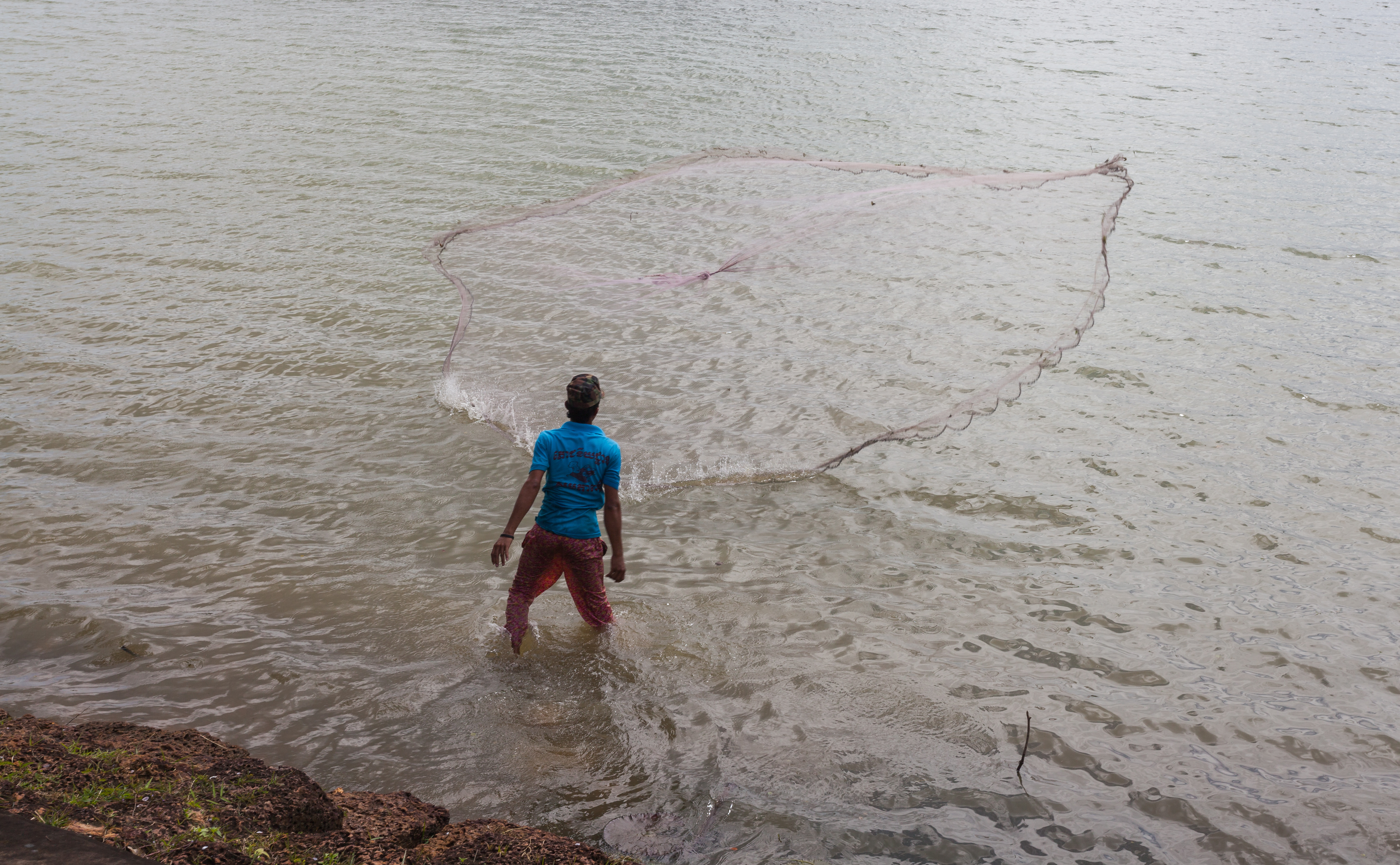 Srah Srang, Angkor, Cambodia